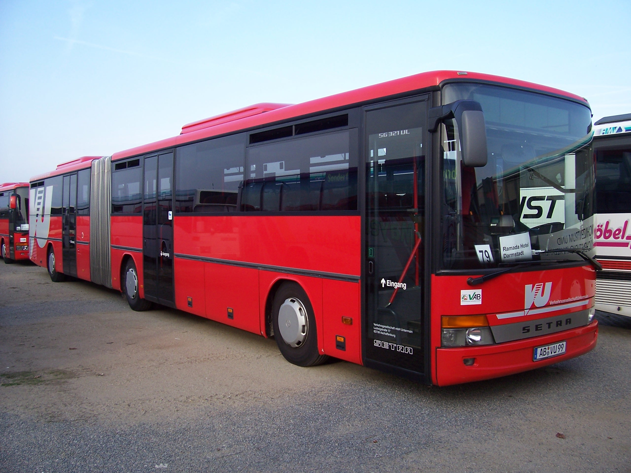 Setra SG 321 UL bus (reg. AB-VU 99, #99) in Mannheim, Germany. Verkehrsgesellschaft mbH Untermain from Aschaffenburg operator.